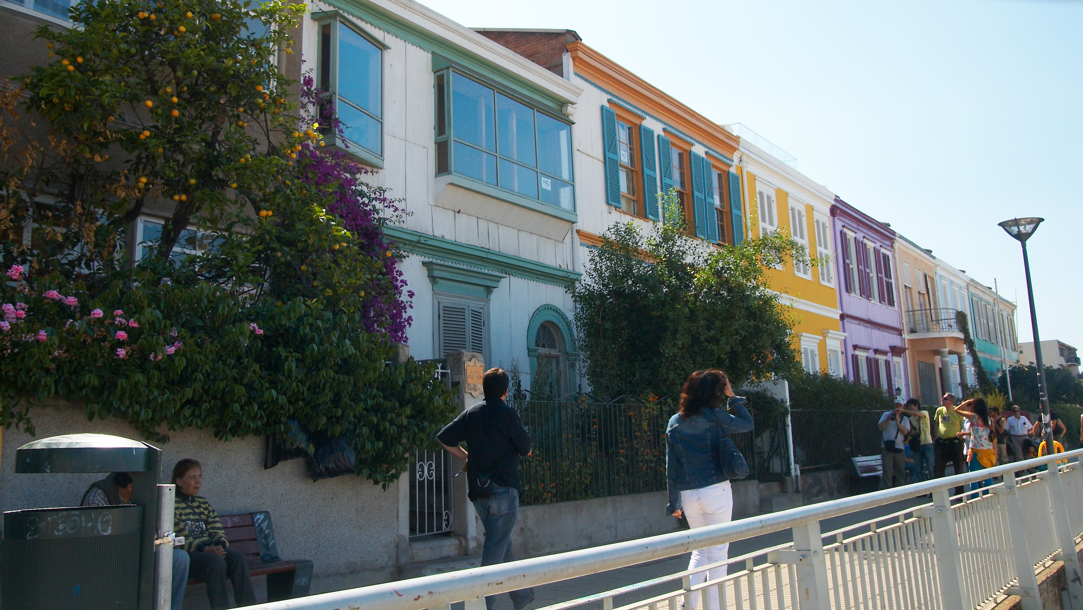 Pasaje Atkinson, Valparaíso, Chile.